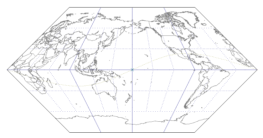 A World map of Eckert I projection.